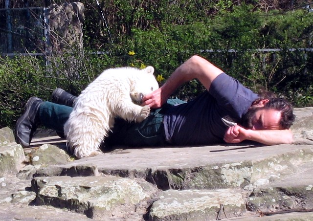 Knut with Thomas Dörflein